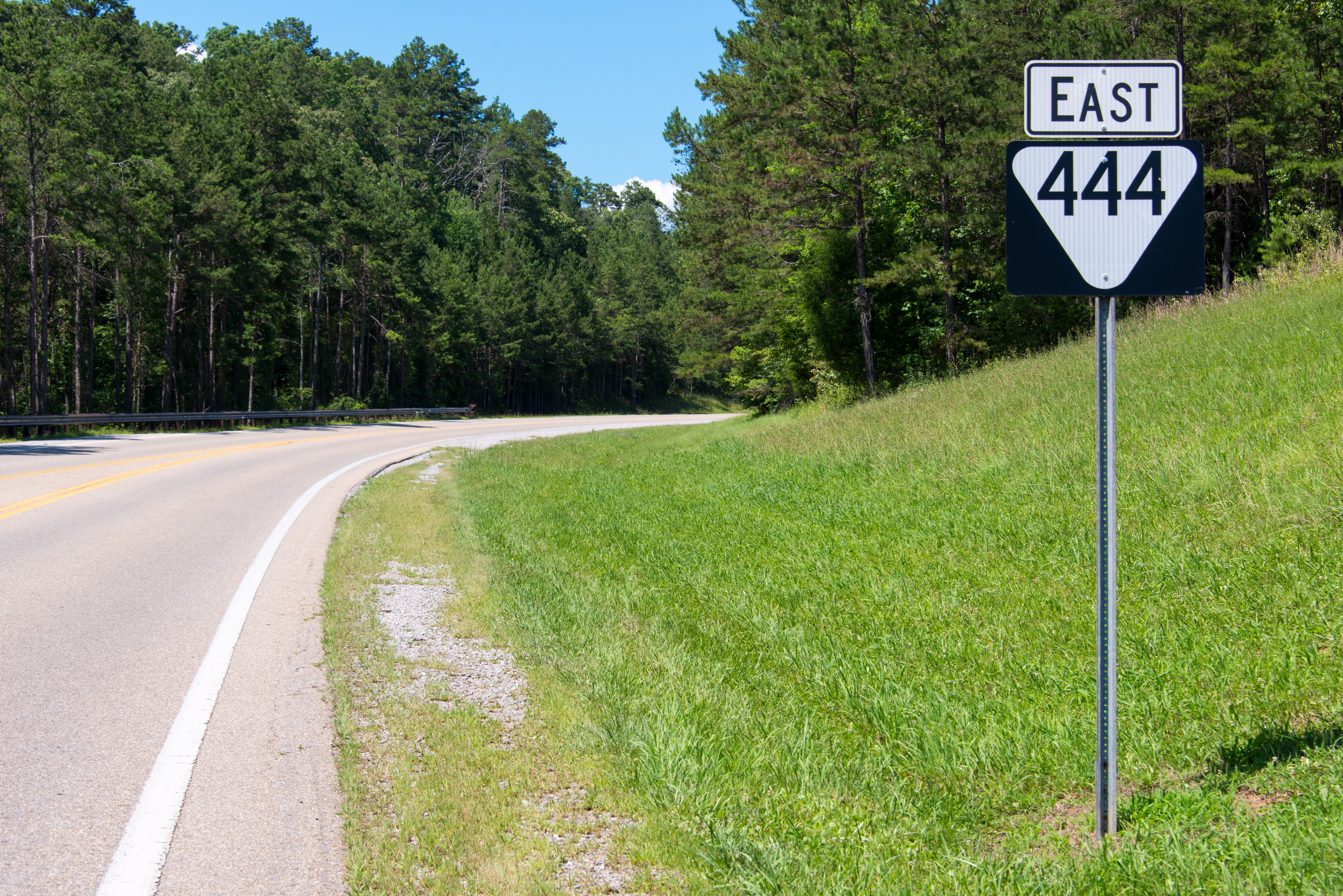 Eastbound Tennessee State Route 444, in Tellico Village.